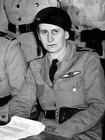 Meeting of the Australian Council of the Women's Air Training Corps (WATC); detail of Mrs J.R. Bell